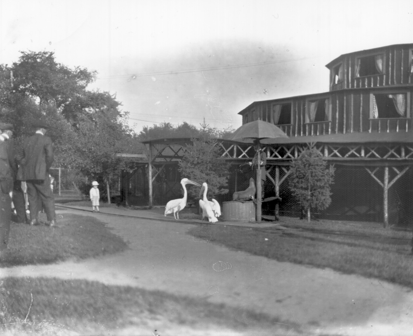 Robert "Fish" Jones performing at his Longfellow Zoological Gardens with a seal and two pelicans in 1917.